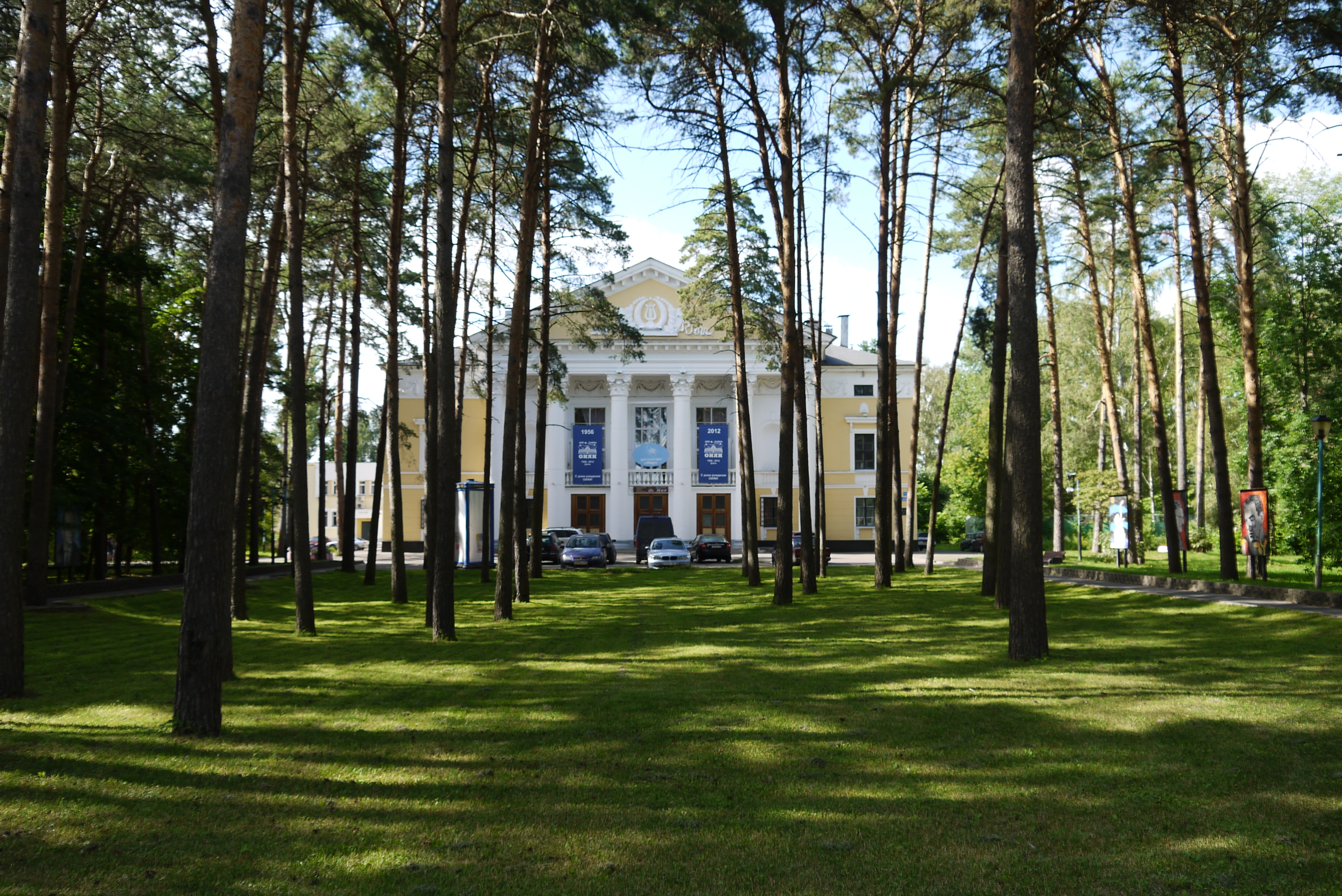 The theatre at Dubna, Russian Federation (House of Culture "Mir").